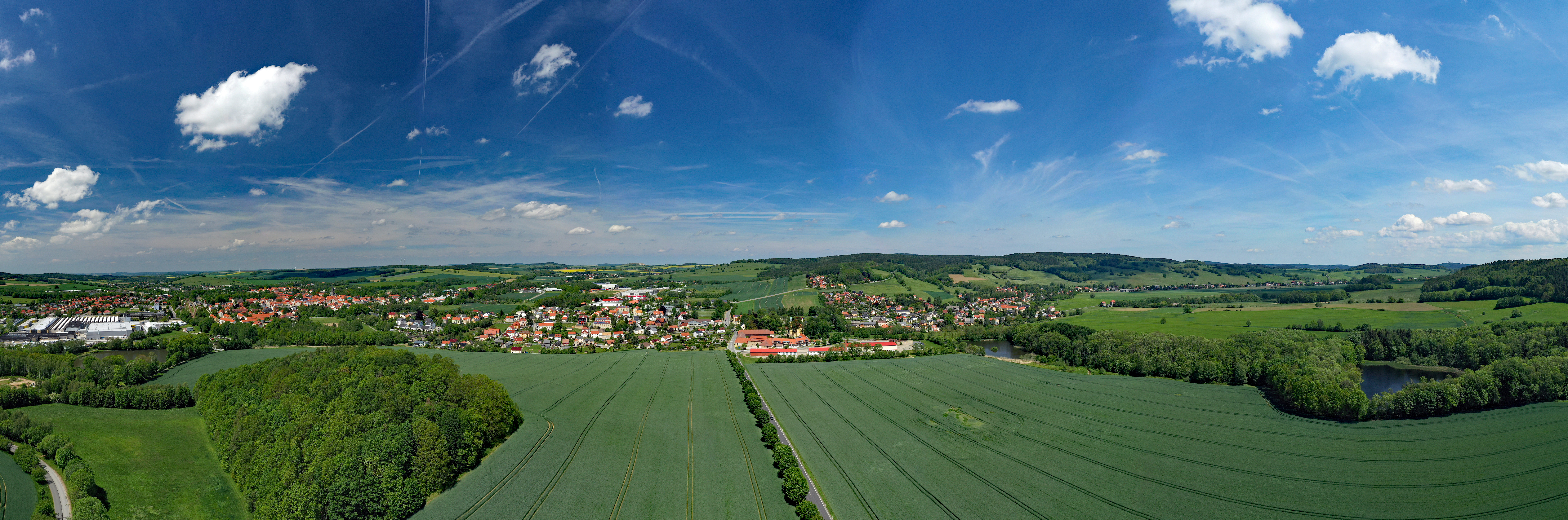 Langenburkersdorf (Neustadt in Sachsen, Saxony, Germany)